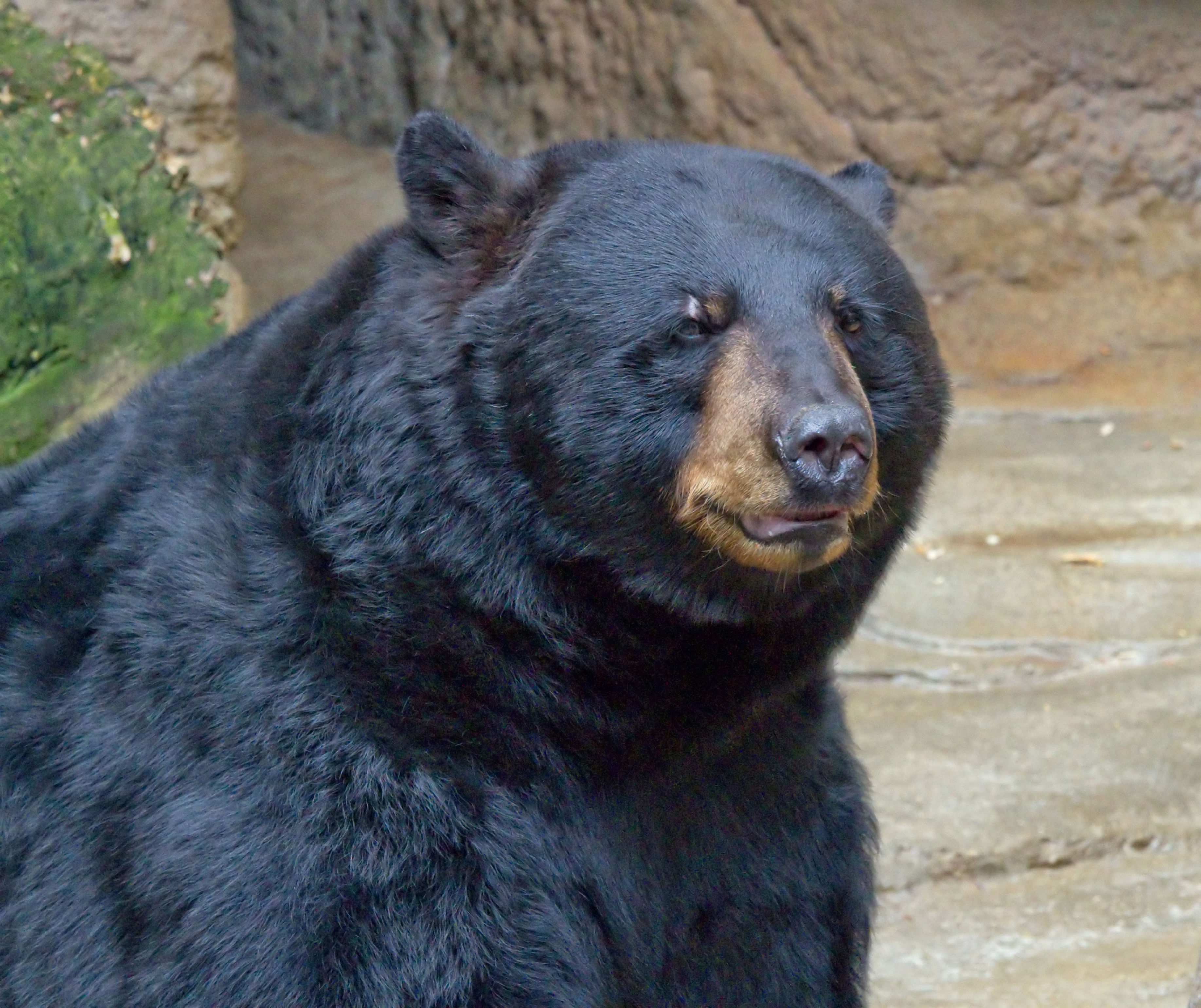 American black bear - Ursus americanus - detail of head. Taken at Cincinnati Zoo.